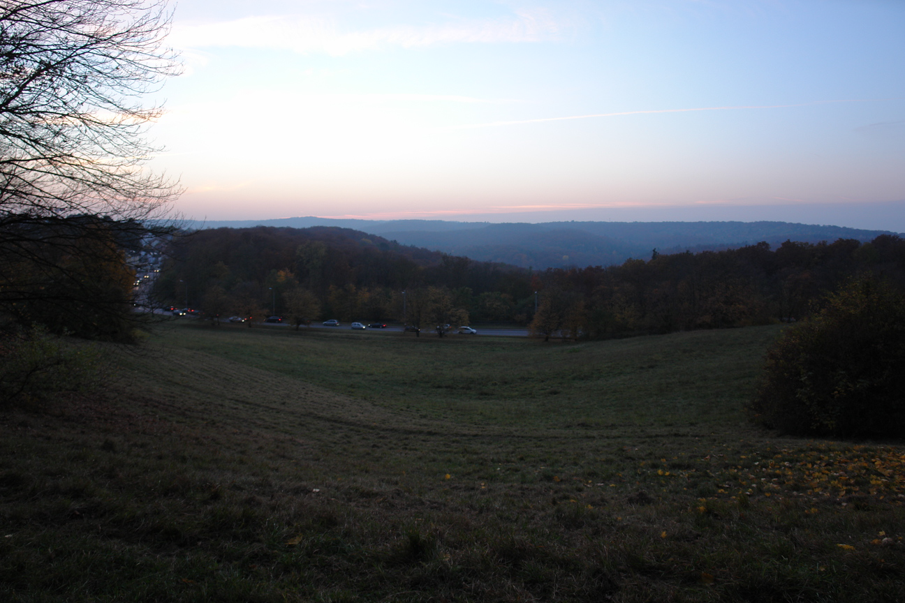 Sun Set over the Feuerbach heath in Stuttgart (Germany)